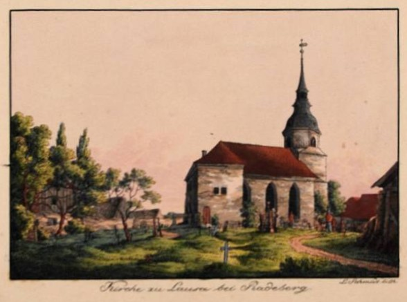 Church of Lausa near Radeberg, today Pastor Roller church in northern Dresden